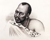 Chief Hintsa of the Gcaleka Xhosa. 1800s.